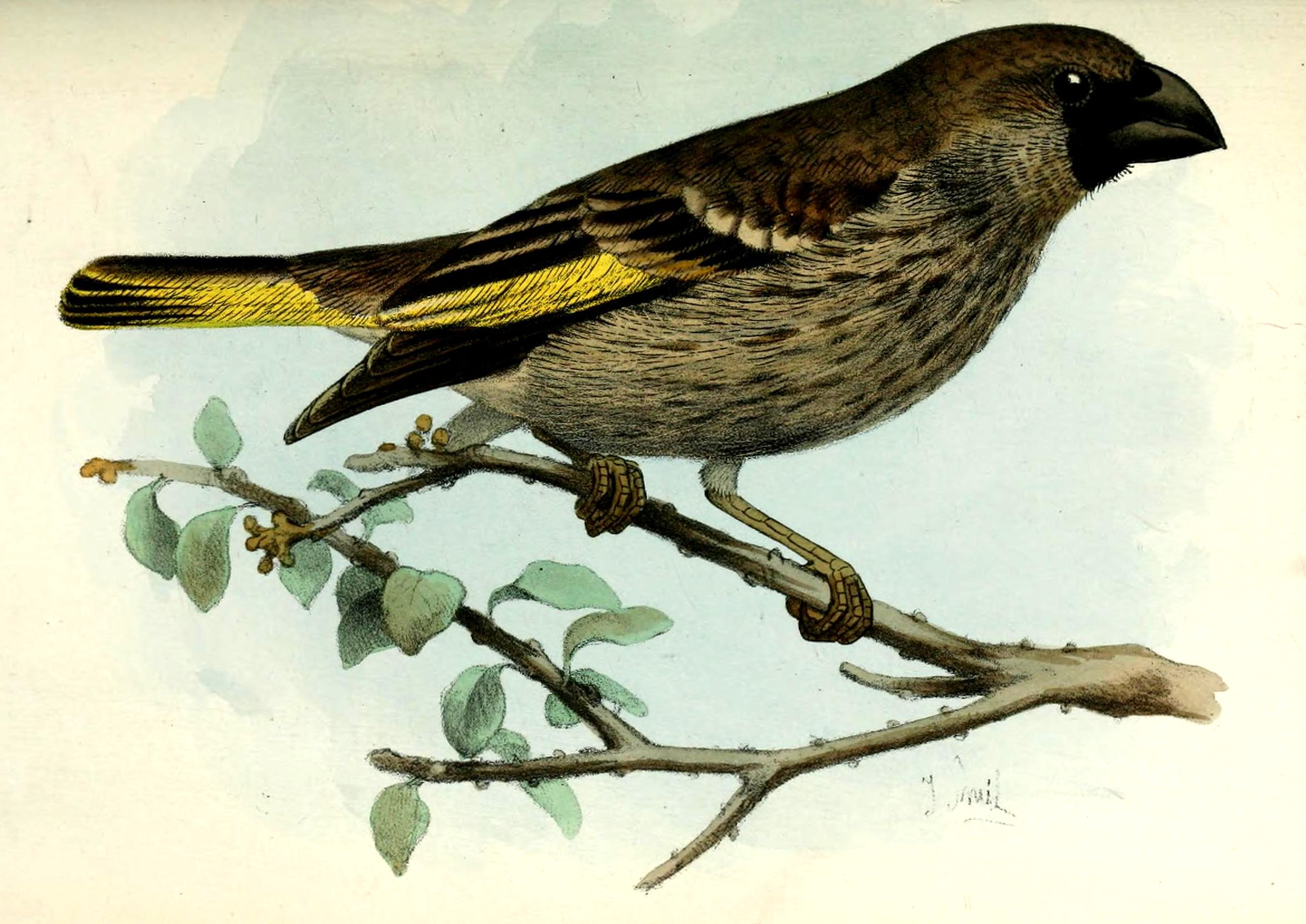 Joseph Smit's depiction of the Socotra Grosbeak, from its description in the Proceedings of the Scientific Meetings of the Zoological Society of London